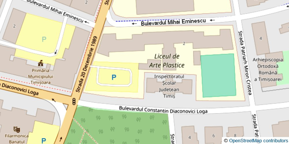 Location of Israelite Highschool Timisoara